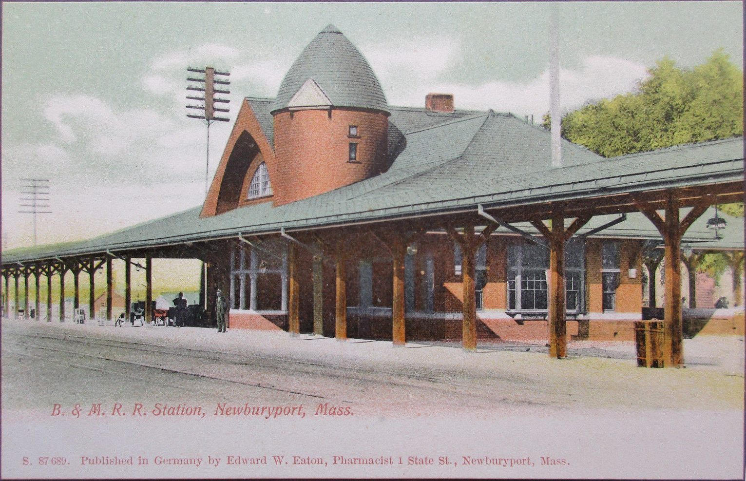 Early undivided back postcard of Newburyport station